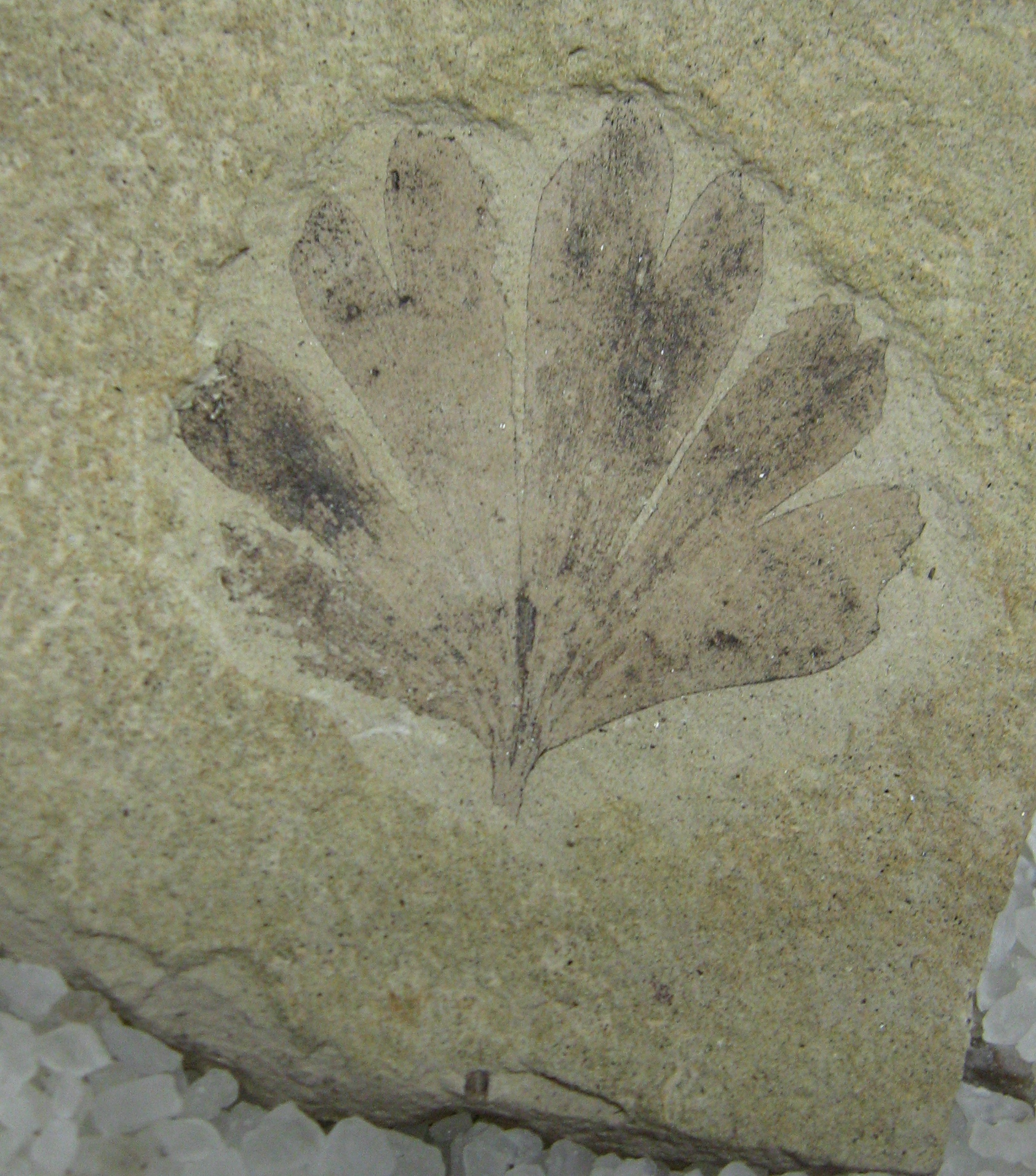 Ginkgo dissecta. A 5cm wide leaf with typical 4 lobed structuring. Illustrated in Mustoe 2002 as SR 96-09-01. Ypresian, 49 million years old, "Boot Hill", Klondike Mountain Formation, Republic, Washington, USA. Stonerose Interpretive Center Collection # SR 96-08-01